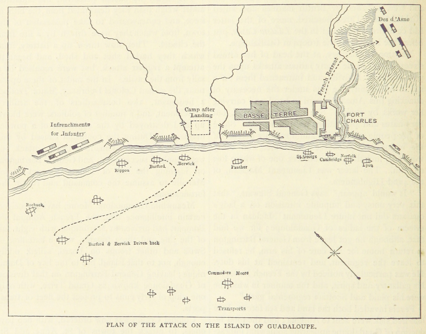 A map of the 1759 Invasion of Guadeloupe. Moore was on board HMS Woolwich